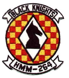 Insignia of the U.S. Marine Medium Helicopter Squadron 264 (HMM-264).